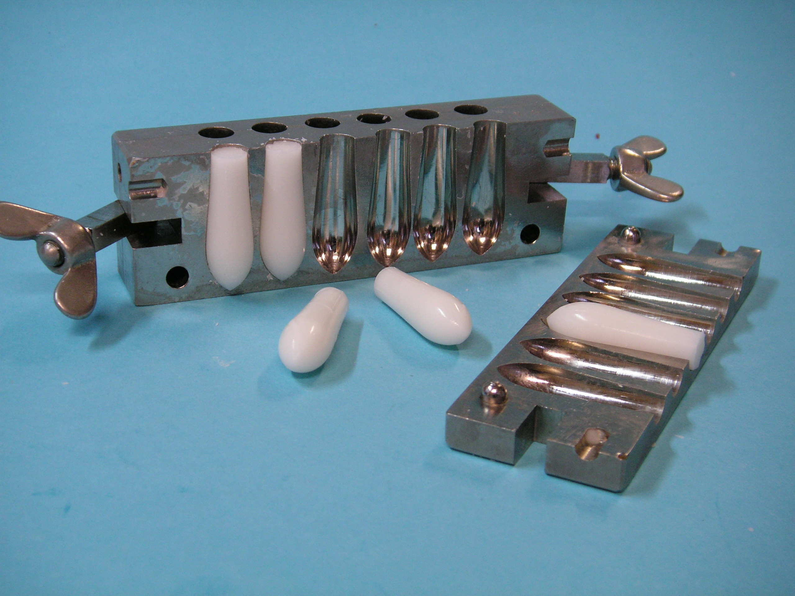 Suppository casting mould. Used by pharmacists to produce suppositories.